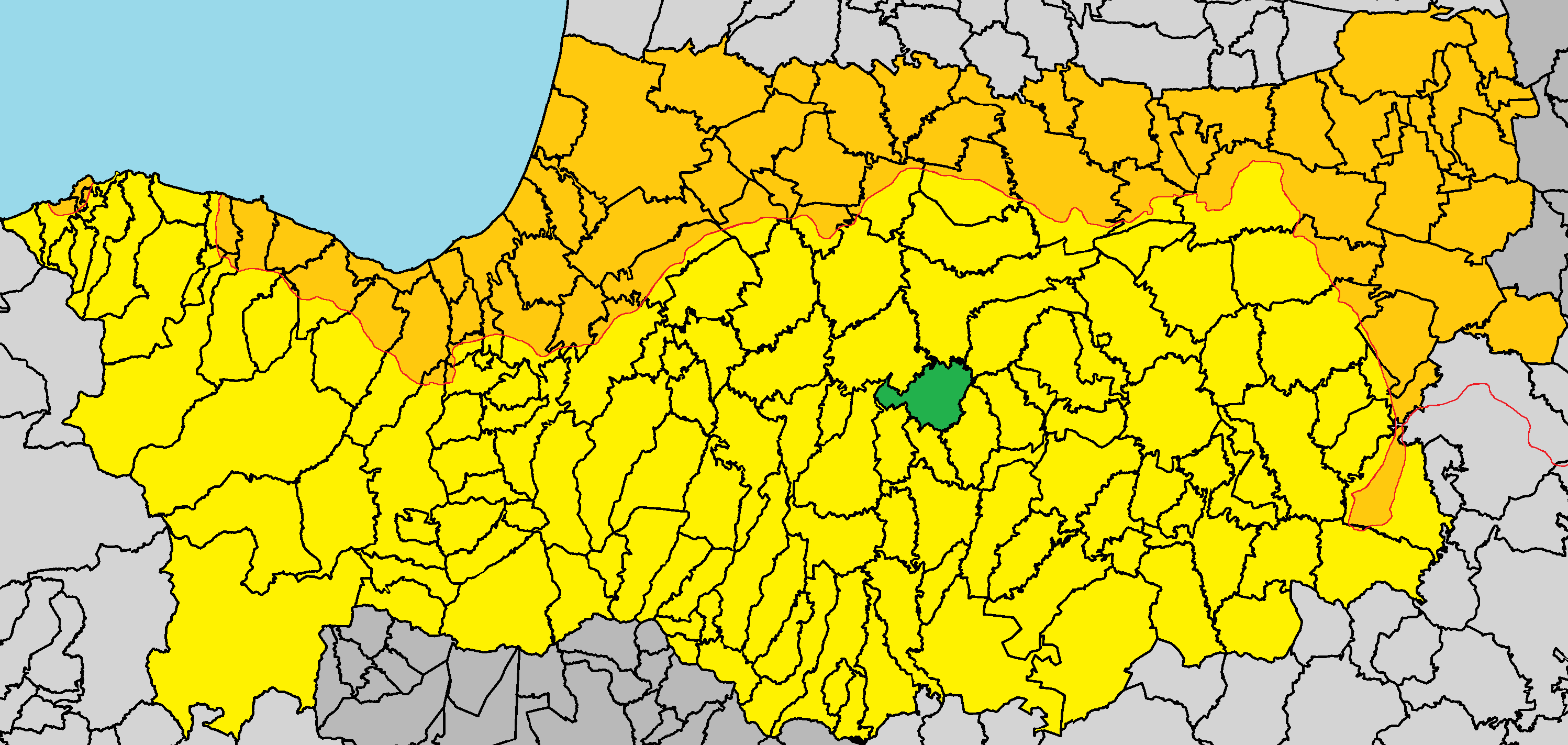 Agios Ioannis Malountas in Nicosia District.